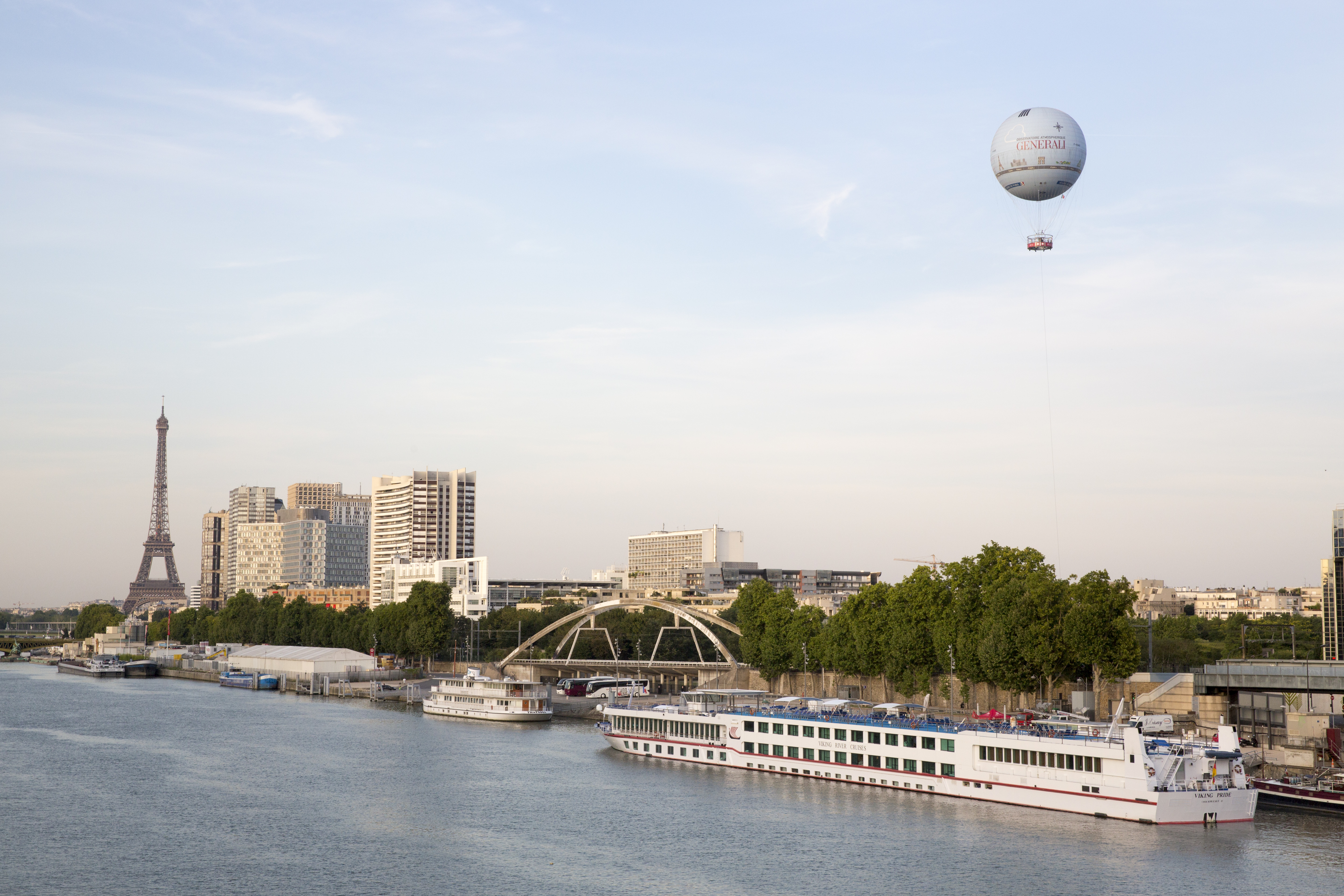 Ballon Generali flying above Paris.